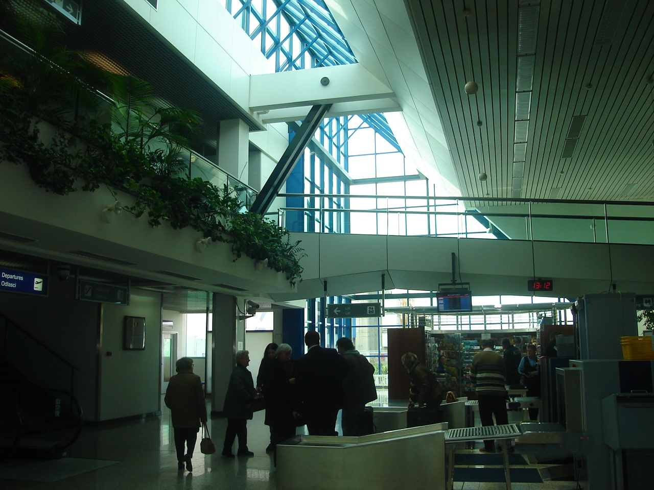 Inside the terminal at Sarajevo Airport